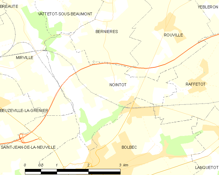 Map of French municipality Nointot